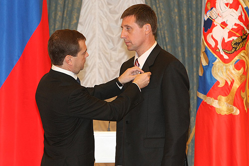 THE KREMLIN, MOSCOW. Ceremony presenting decorations to Russian journalists. Channel One cameraman Kirill Butyrin was awarded the Order of Courage